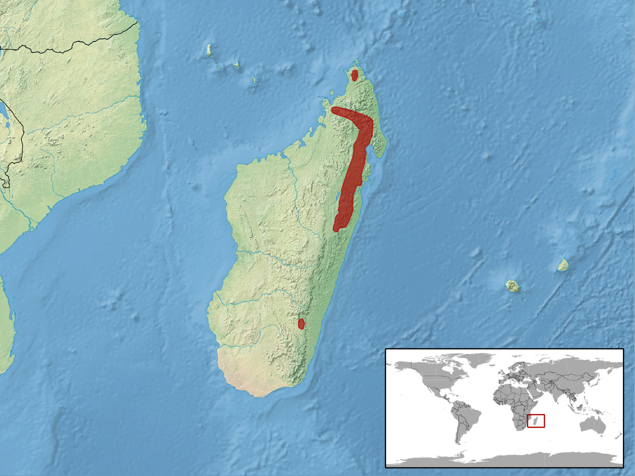 geographic distribution of Madascincus minutus